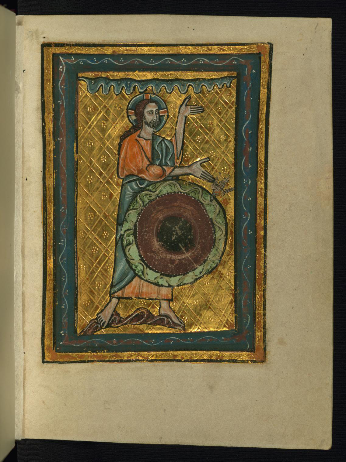 This folio from Walters manuscript W.106 is the first image in a series of Bible pictures. The artist William de Brailes tells the Genesis story, condensing two days of Creation into one image. On the first day of Creation, God created heaven and earth, and the earth was without form and void. The Spirit of God moved across the face of the waters, and we see God himself gesturing to the Spirit with his right hand. God raises his left hand to the waters above him, which he separated from the firmament, beneath his feet, on the second day.